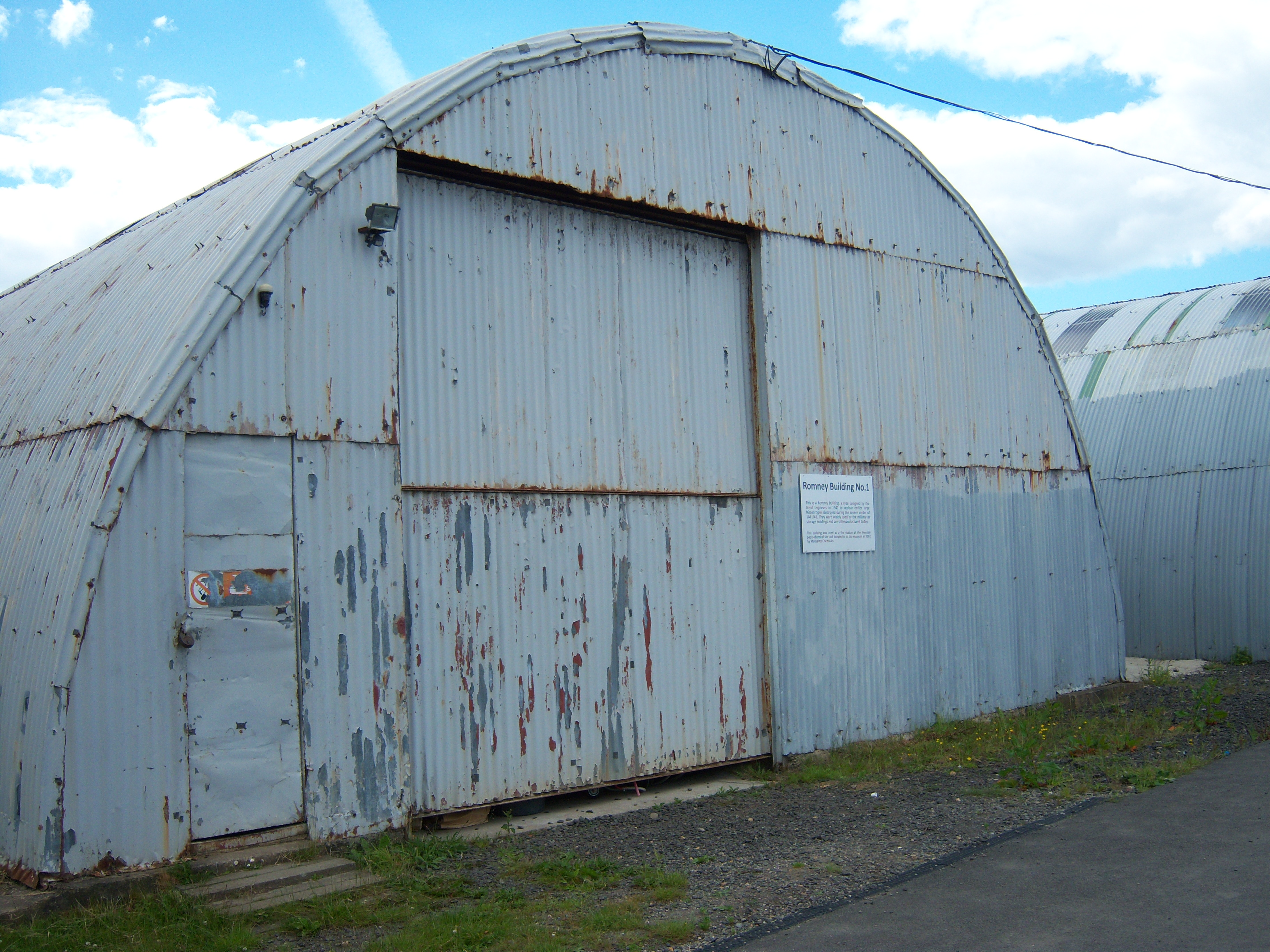 Seen at the NELSAM site in Sunderland.